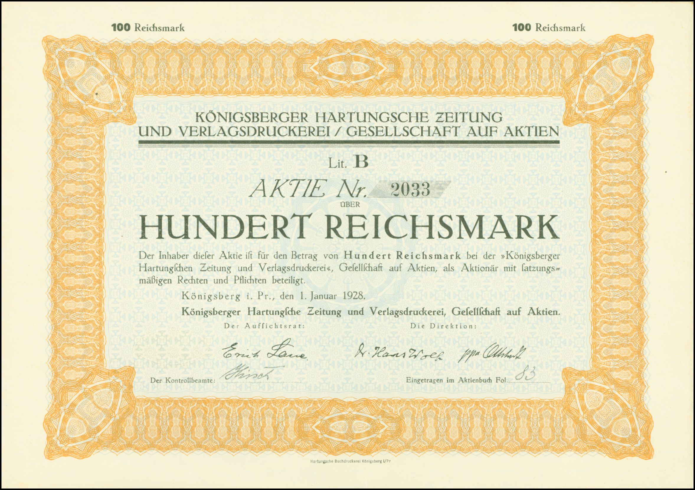 Share of the Königsberger Hartungsche Zeitung und Verlagsdruckerei vom 1. January 1928